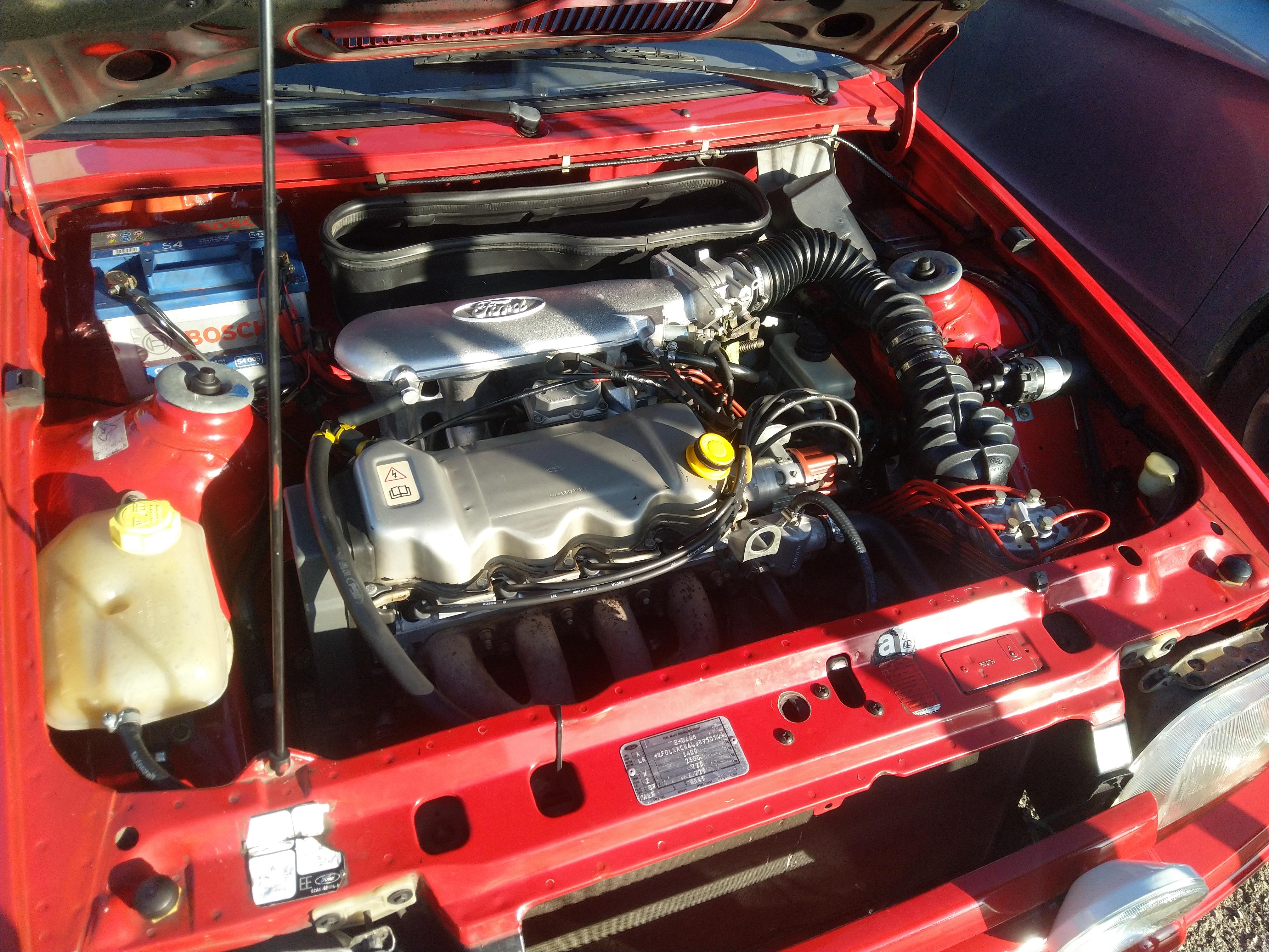 Ford 1.6 CVH Engine in a 1988 Ford Escort XR3i